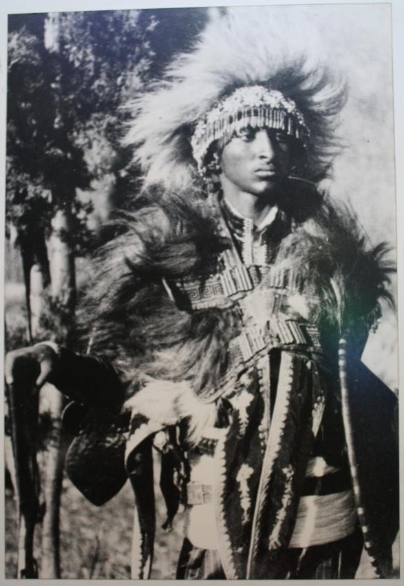 A Young Tafari Makonnen is dressed in warrior garments, reminiscent of King David himself. Here you see HIM in lion mane headdress and vestiture, taken in the early 20th century..